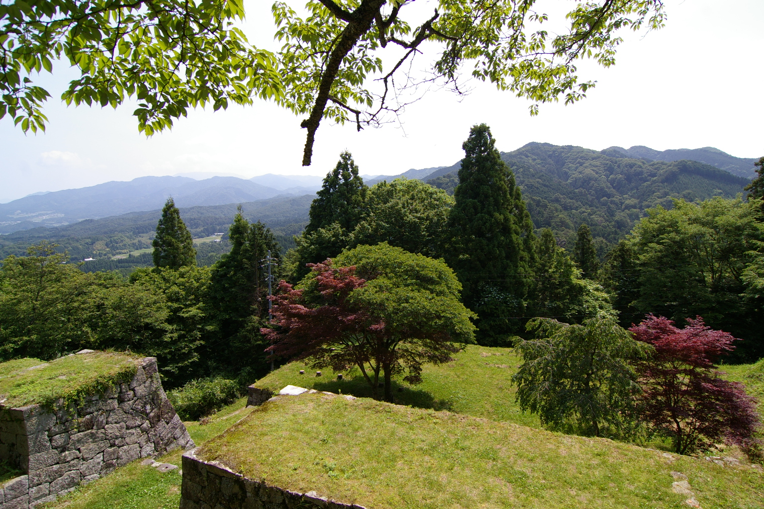 Iwamura Castle (Agi Nakatsugawa City, Gifu Pref, Japan)